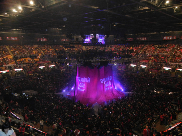 Ekin Cheng's Concert 2011 'Beautiful Life' in Hong Kong